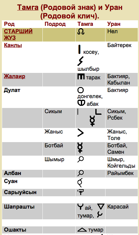 Tamga